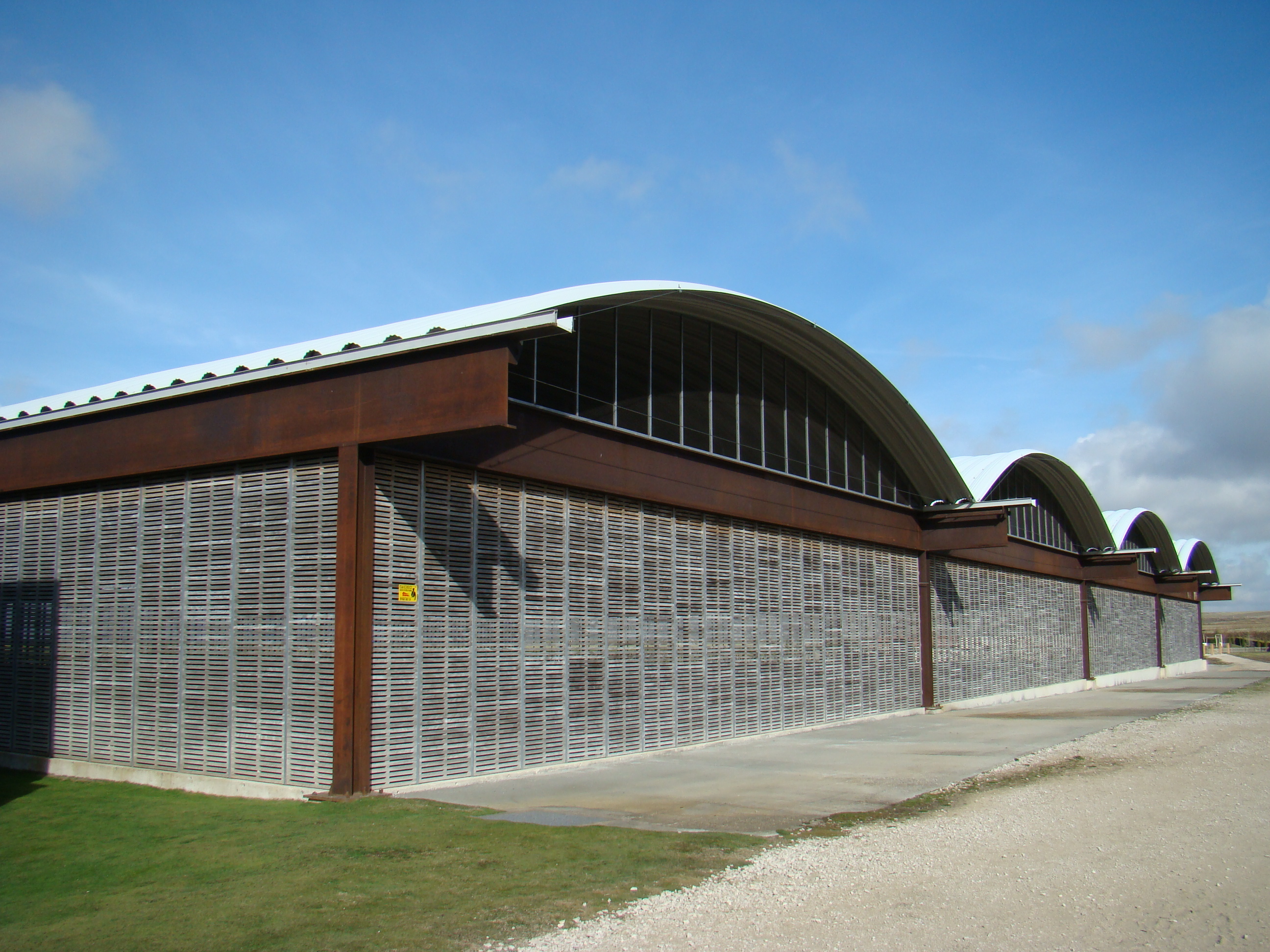 Modern structure to protect the finds in the archeological bed.